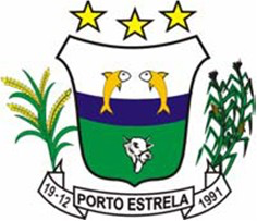 Brasão de Porto Estrela